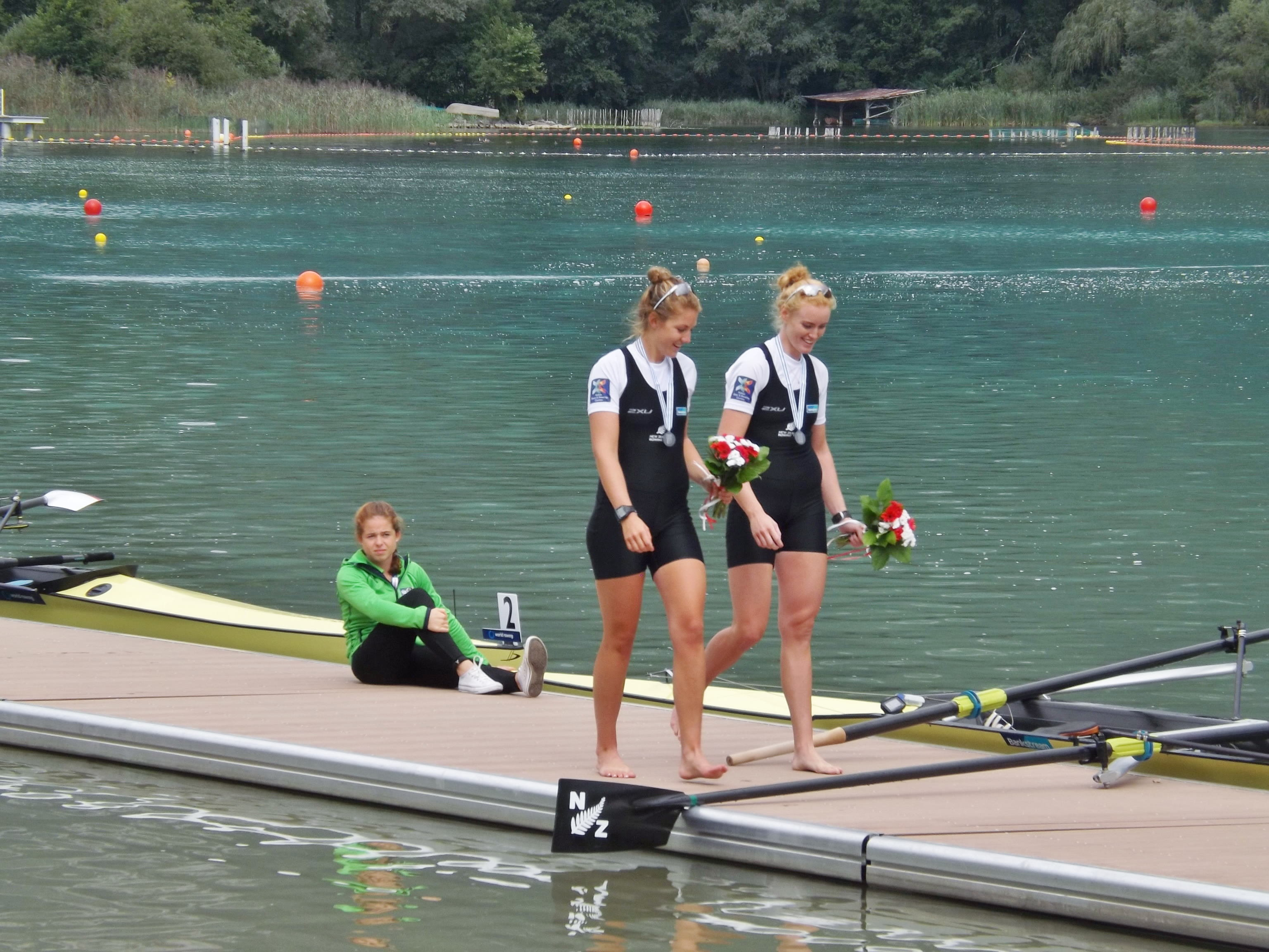 Sight of New Zealand athletes Kerri Gowler and Grace Prendergast, after they received their silver medal, during the 2015 World Rowing Championships on the lac d'Aiguebelette lake, Savoie, France.